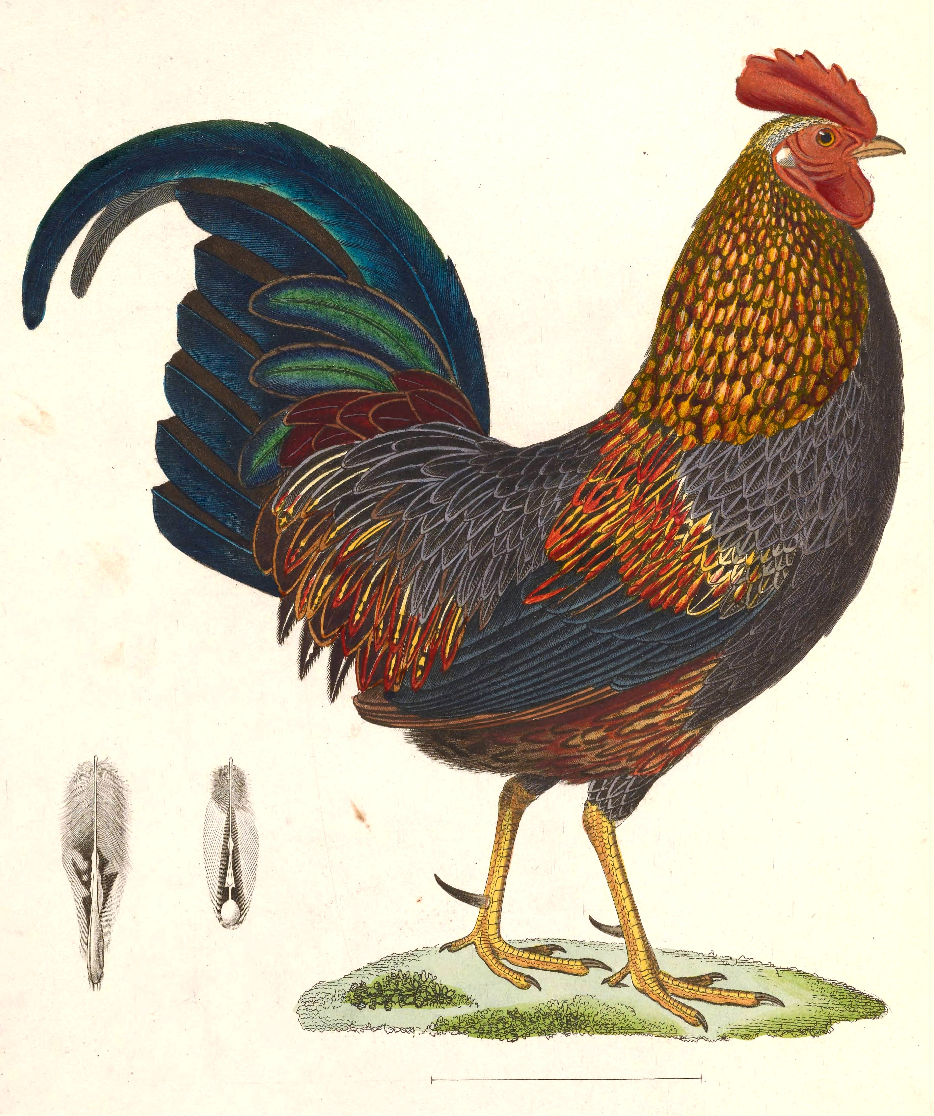 « Gallus sonnerati » = Gallus sonneratii (Grey Junglefowl) - male